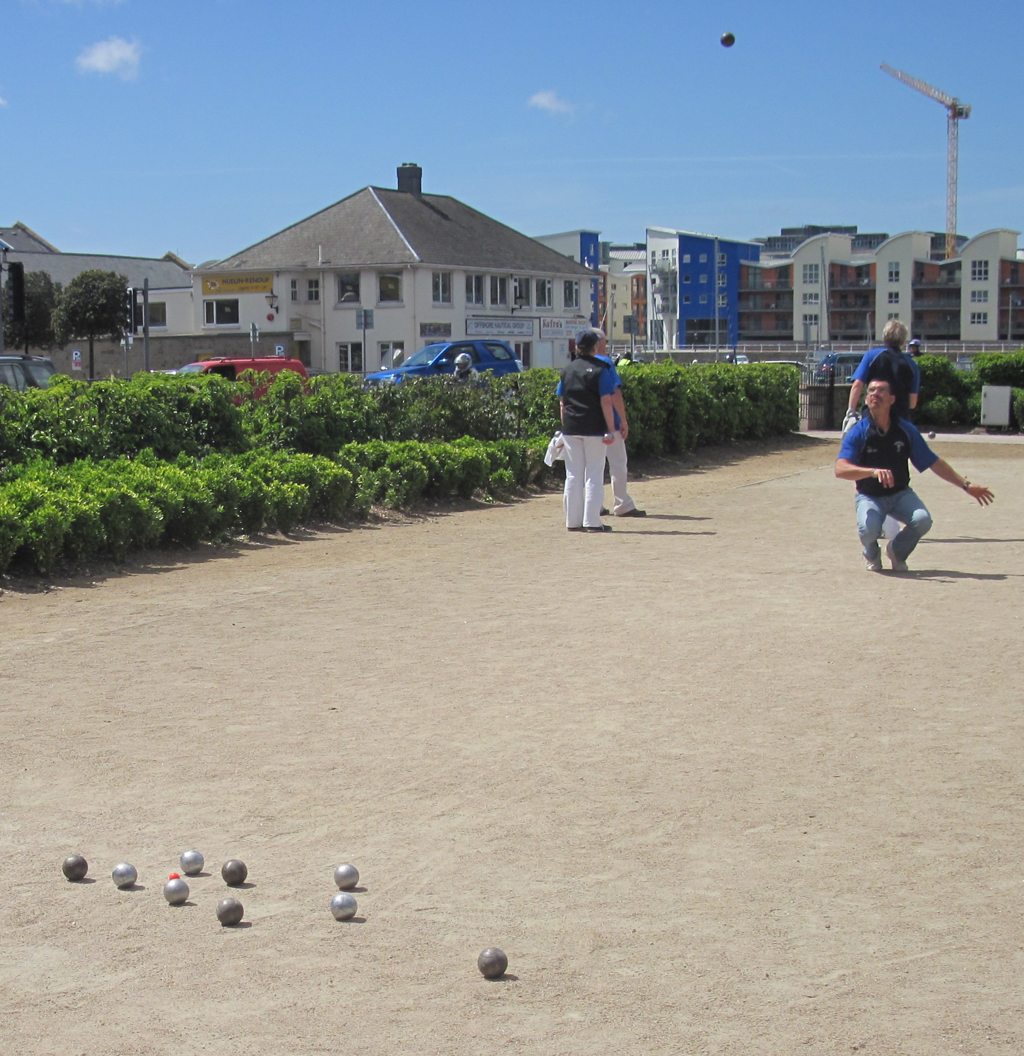 Pétanque competition between twin towns Saint Helier and Avranches, hosted in Saint Helier, Jersey, May 2011